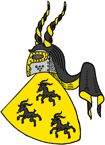 Coats of Arms of the Holy Roman state of Wallmoden